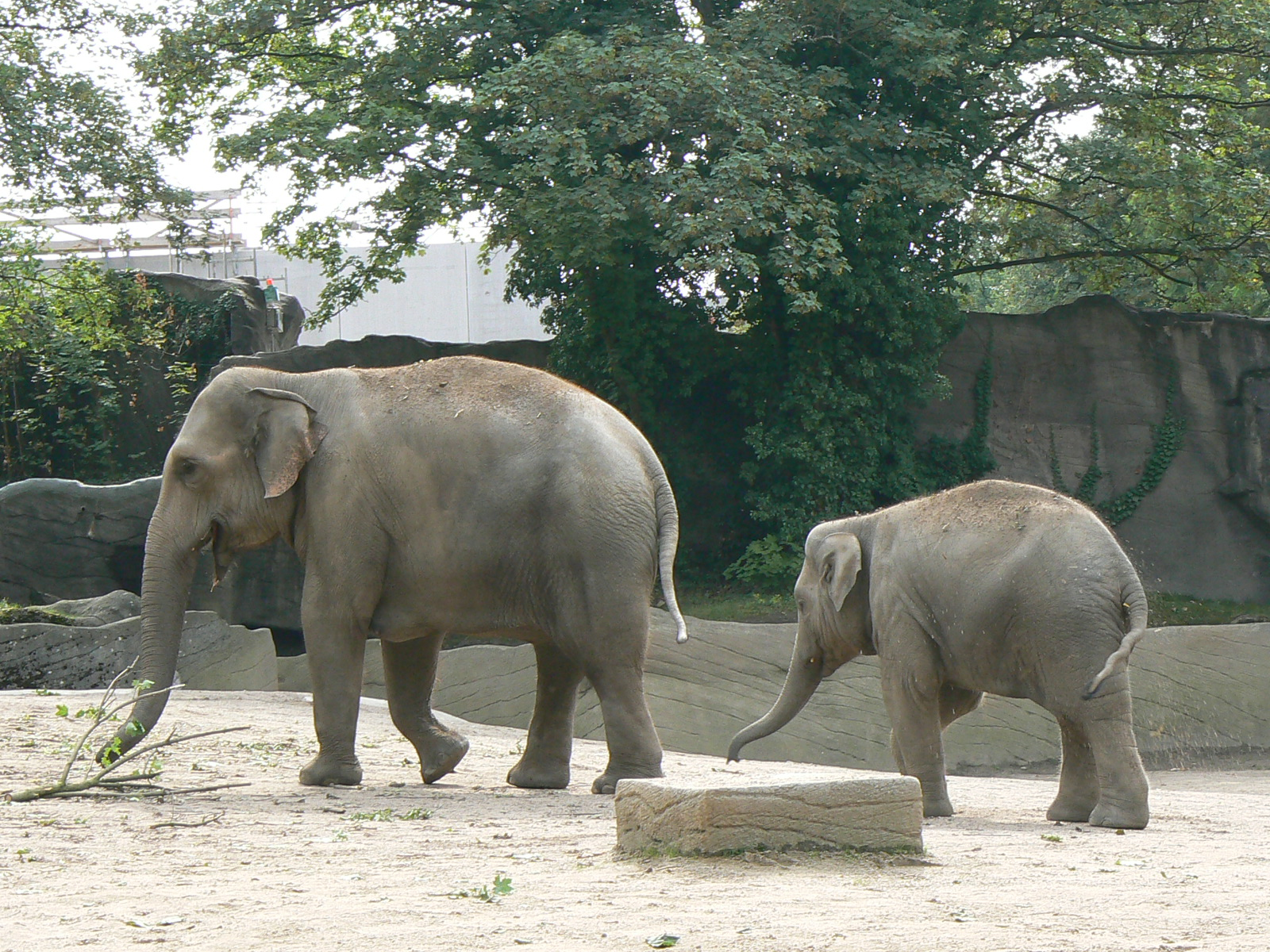 mother and baby asian elephants on the zoo from hamburg "Elephas maximus"